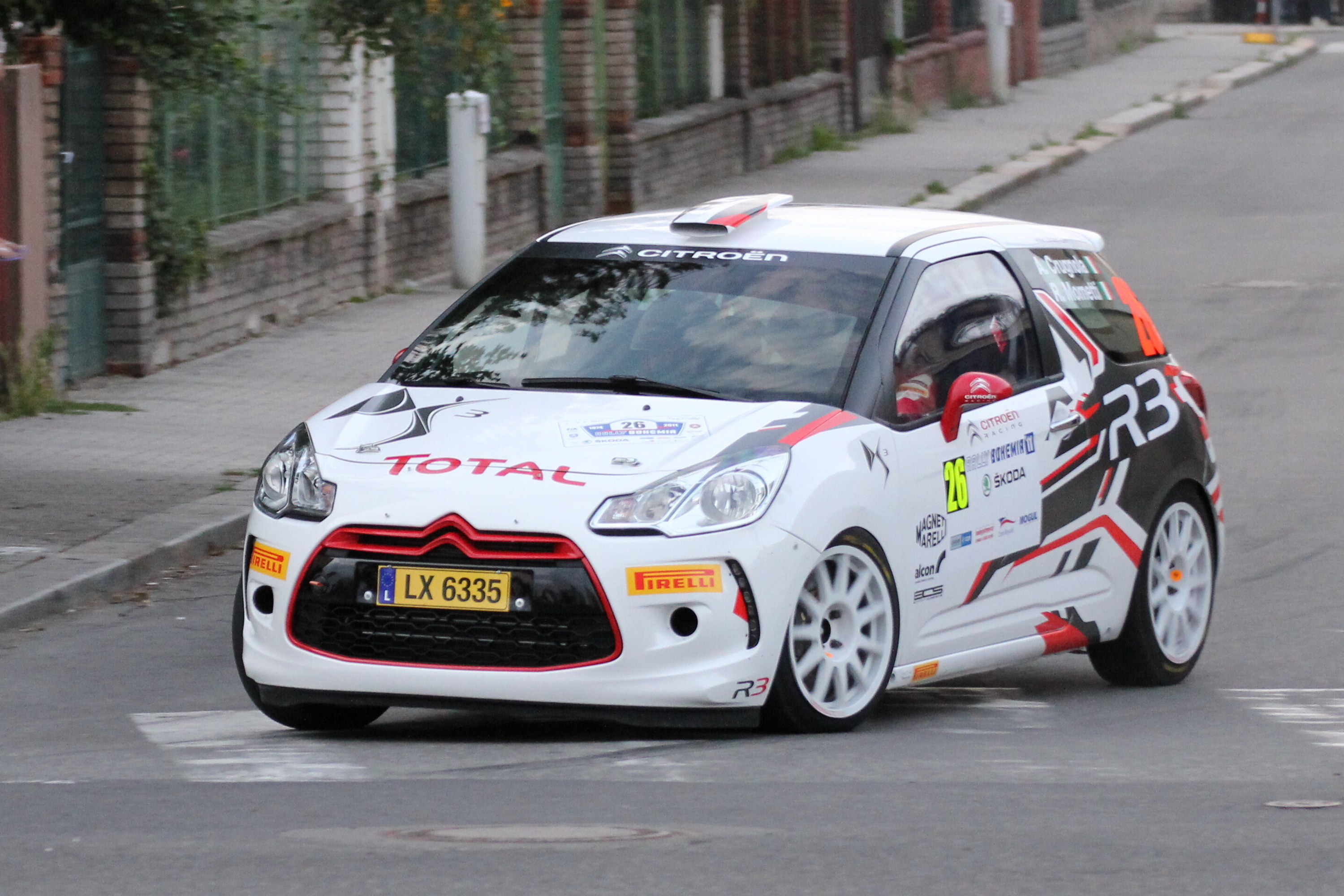 Rally Bohemia 2011 - Crugnola